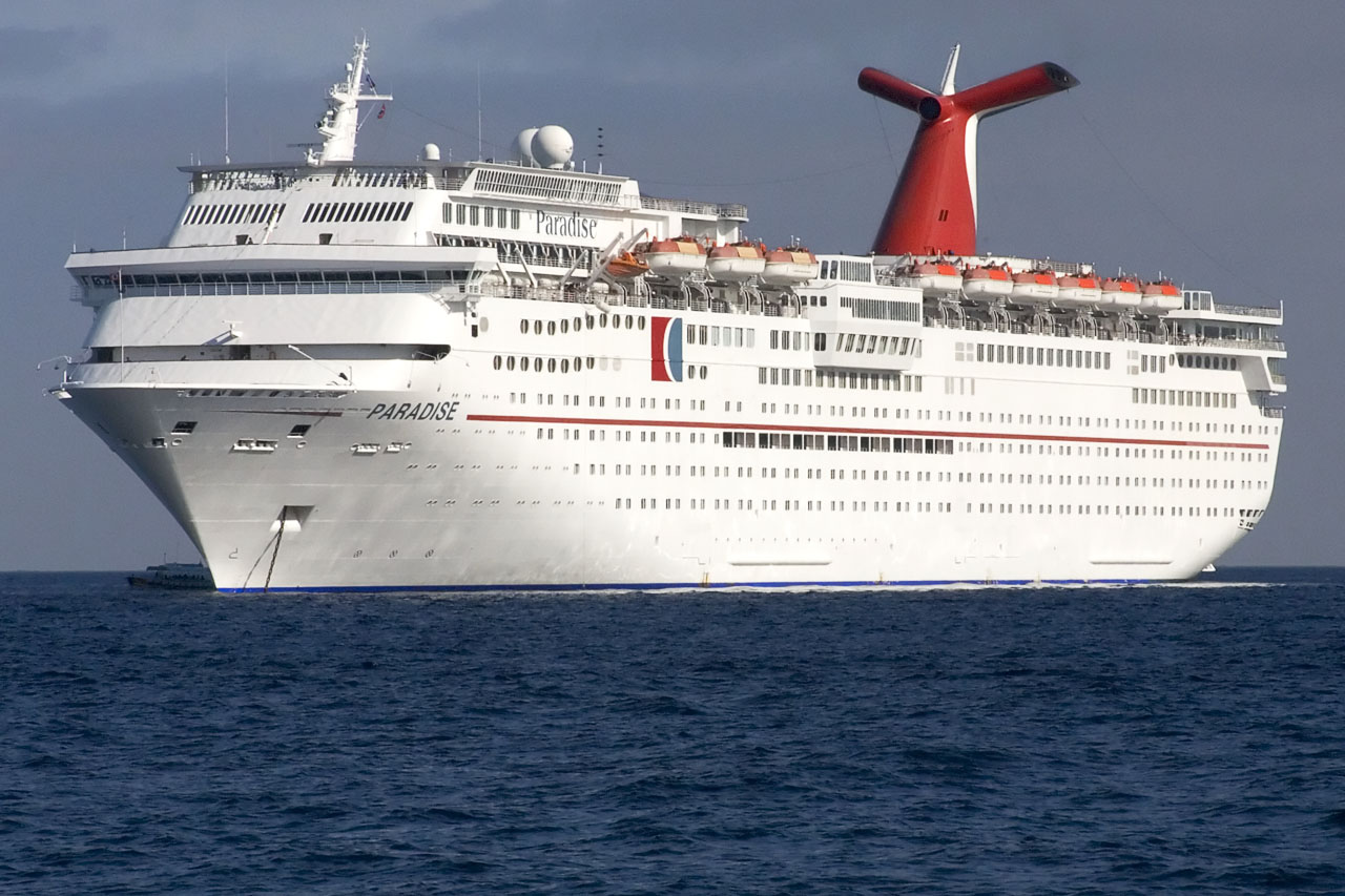 The MS Paradise cruise liner anchored off the shore of Catalina Island, CA, USA.